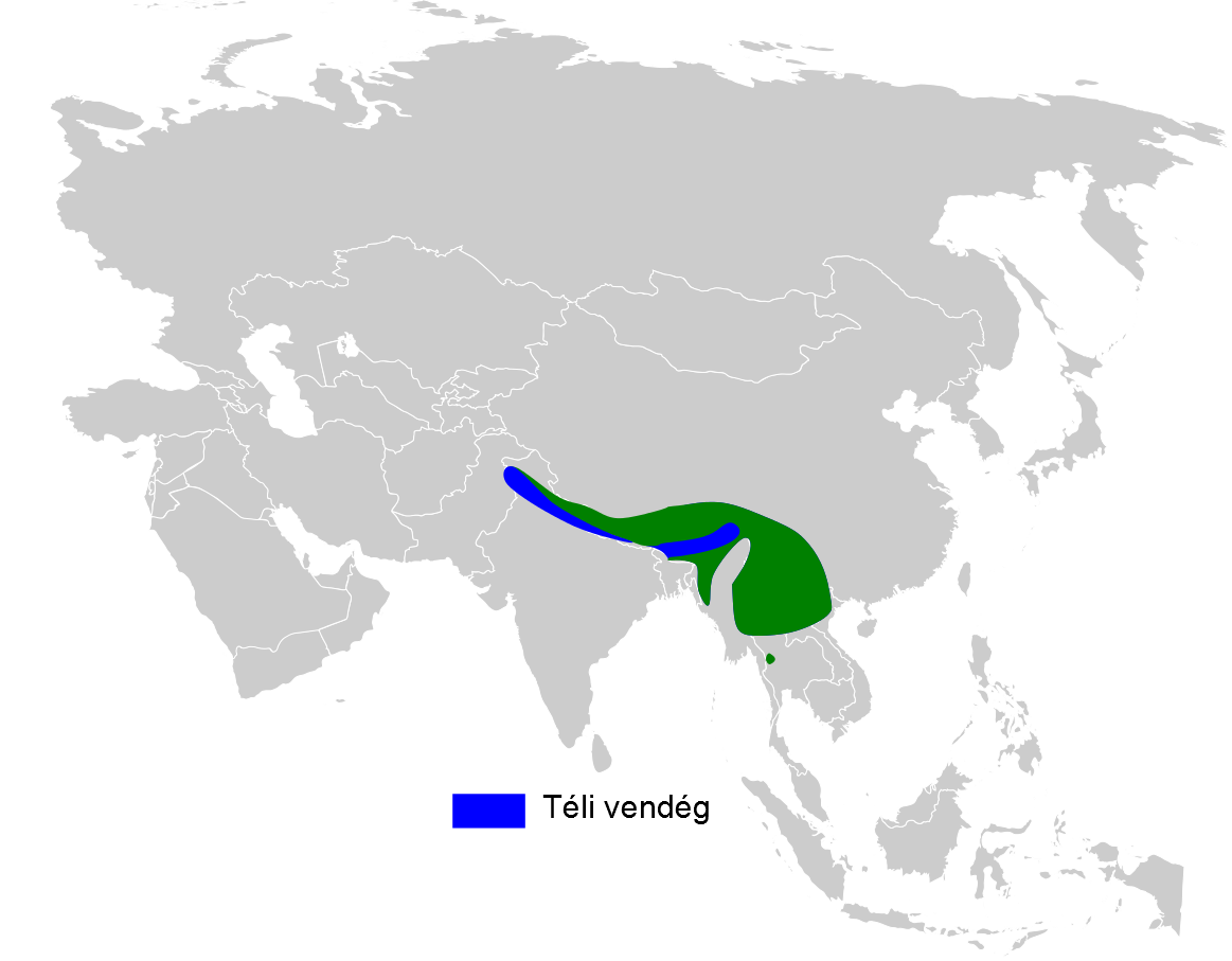 Chelidorhynx hypoxantha distribution mapusing BlankMap-World6.svg, based on